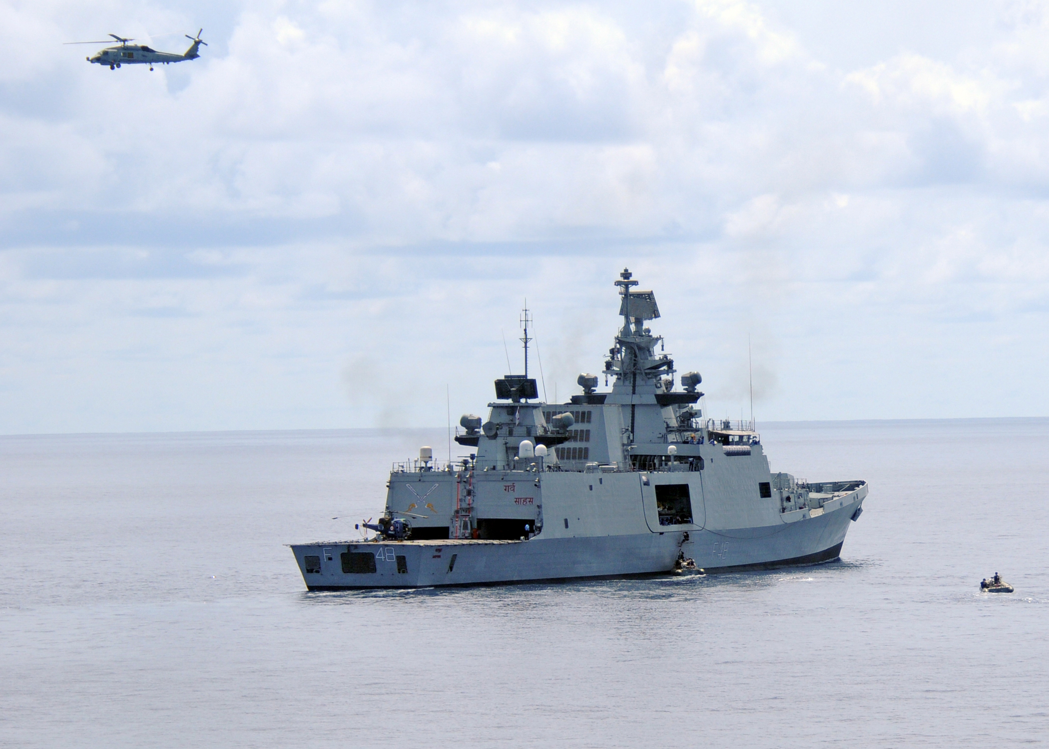 Sailors assigned to the visit, board, search and seizure team aboard the guided-missile destroyer USS Halsey (DDG 97) transit in a rigid-hull inflatable boat toward the Indian navy frigate Satpura (F-48) while an SH-60B Sea Hawk helicopter monitors from above during a training exercise. Halsey and Satpura are participating in Malabar, a scheduled naval training exercise conducted to advance multinational maritime relationships and mutual security.